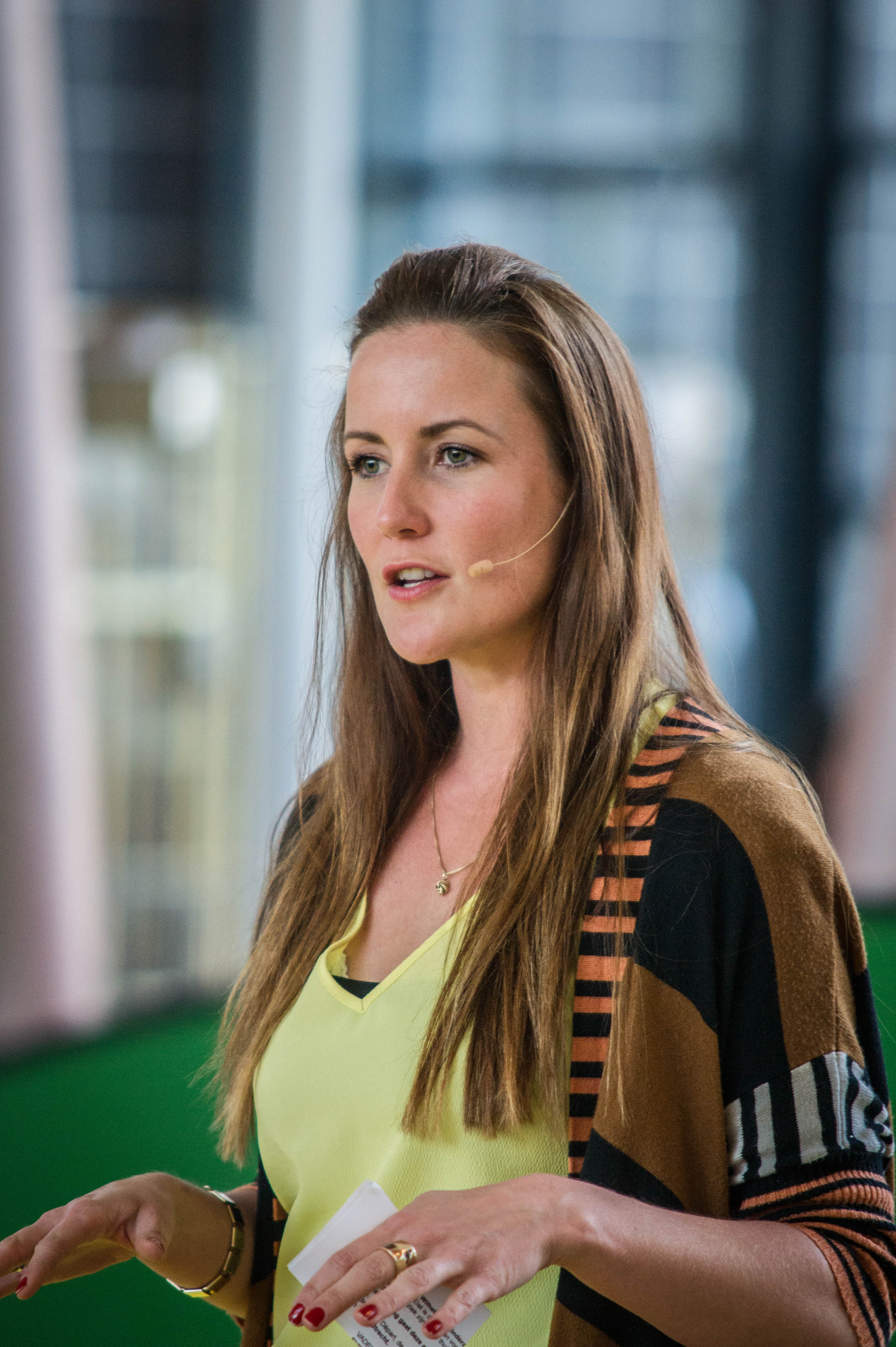 Dutch television host Evelien Bosch